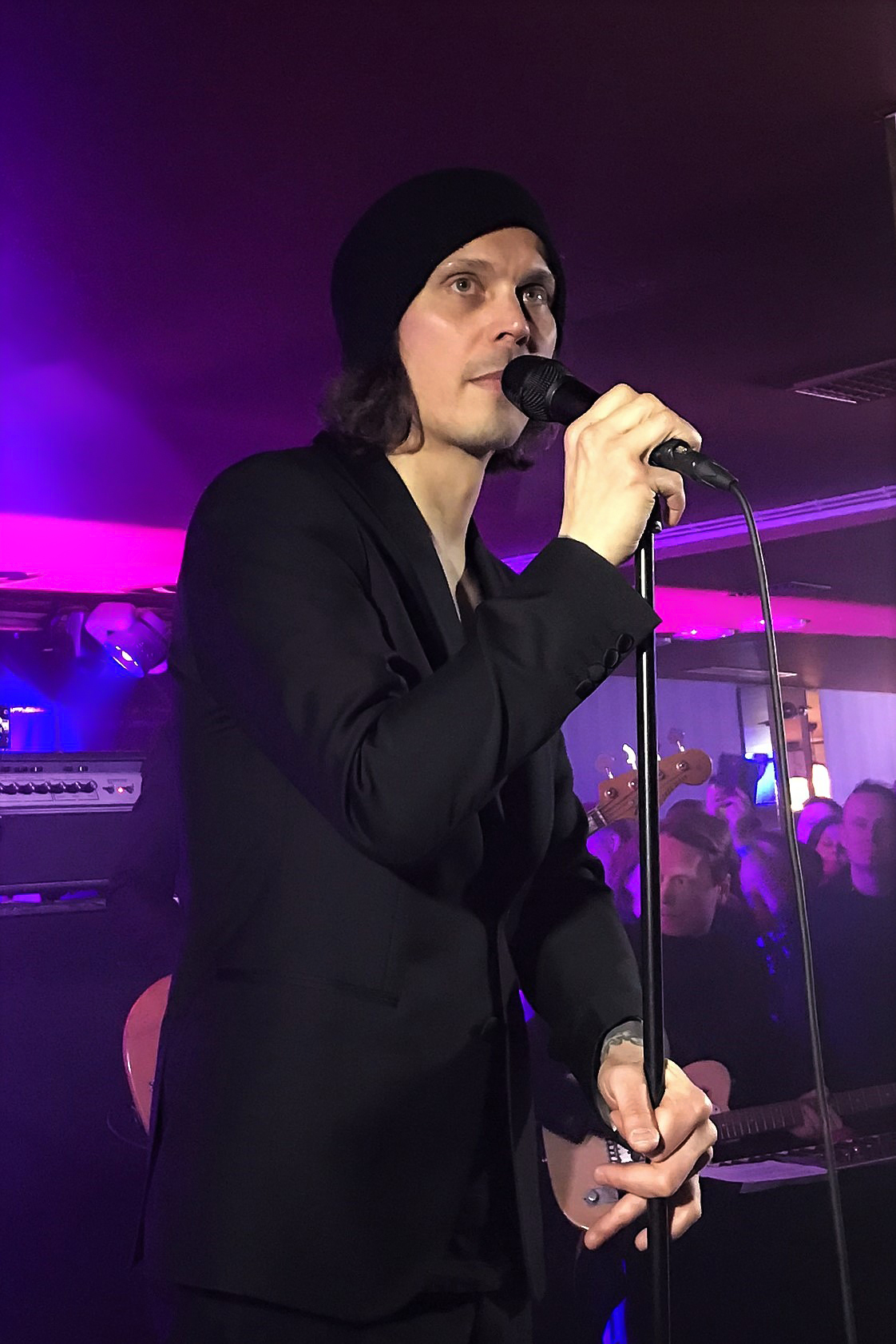 Ville Valo performing with Agents in Kotka, Finland on 9 March 2019